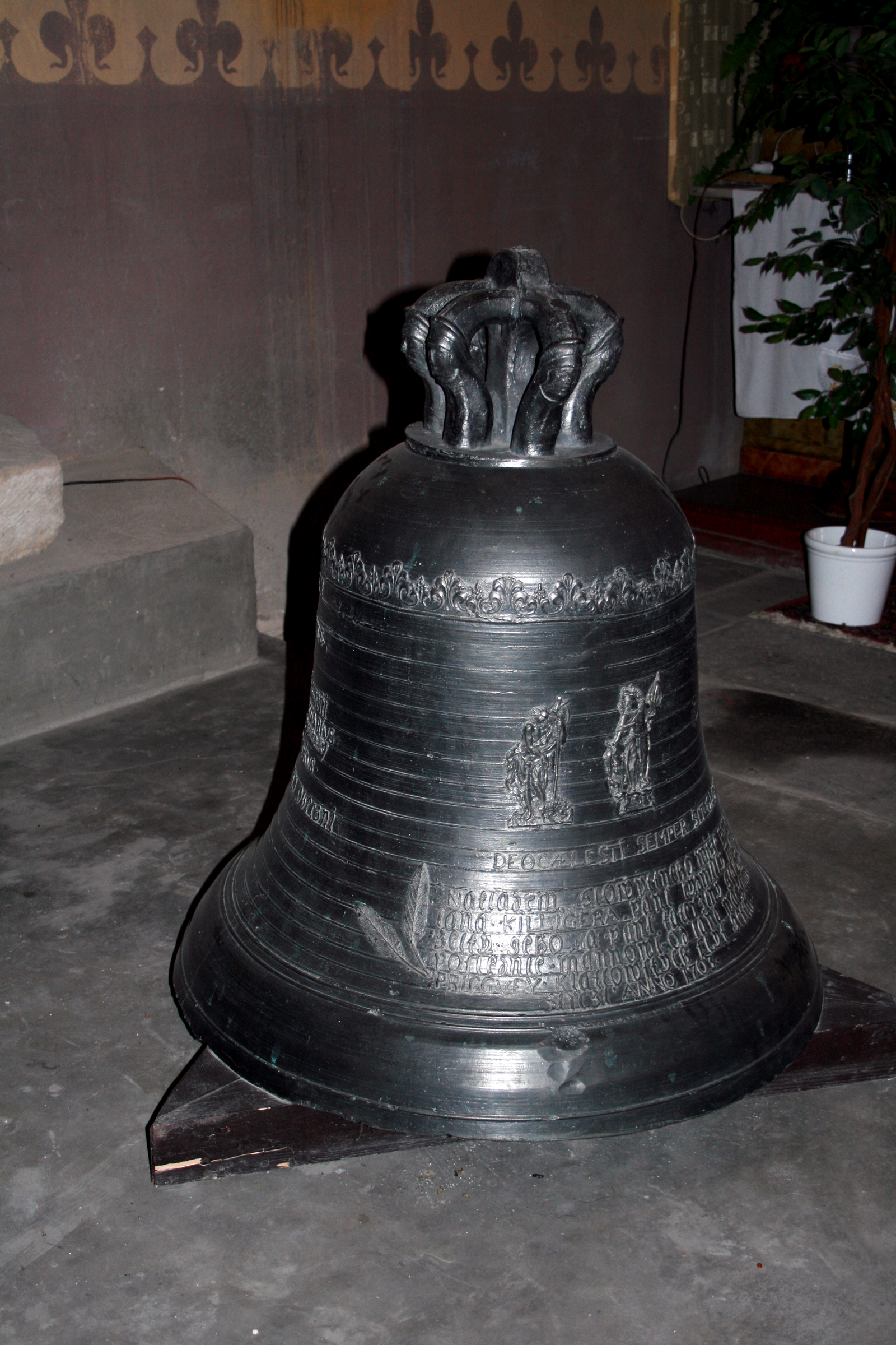 Bell of St. Jacob in Church of st Nicolas in Jaroměř, east Bohemia, Czech Republic